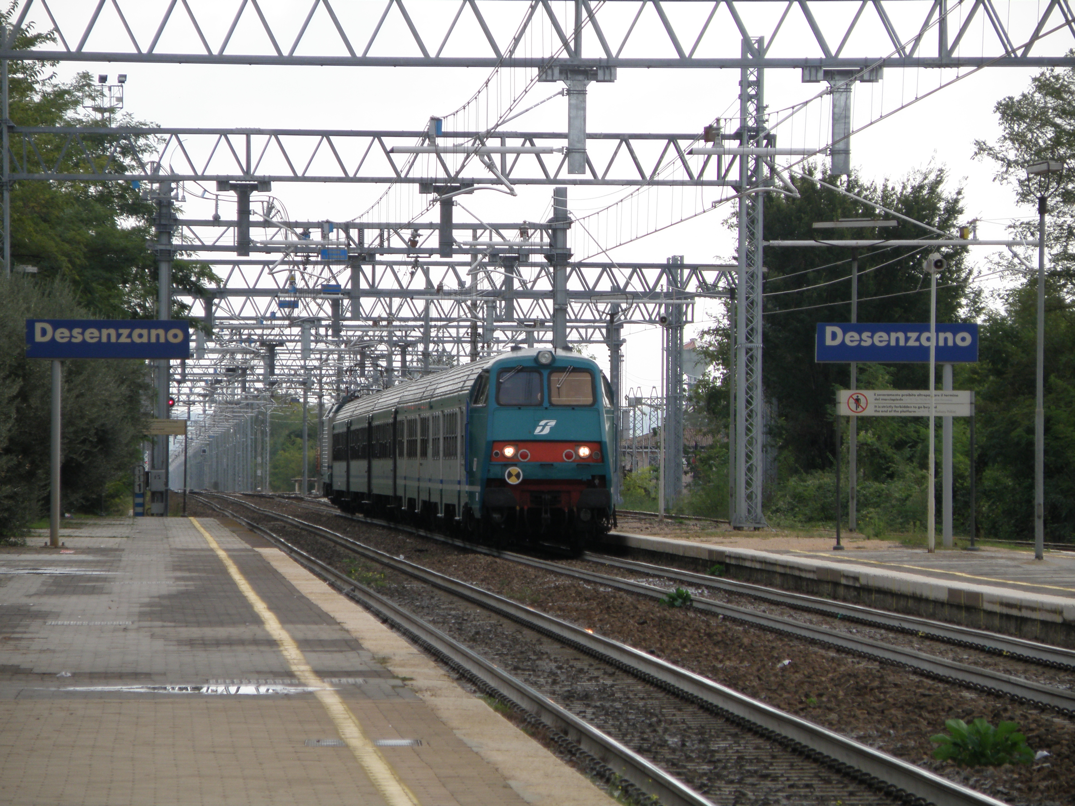 A regional train bound for Milano Centrale arriving at Desenzano del Garda-Sirmione.